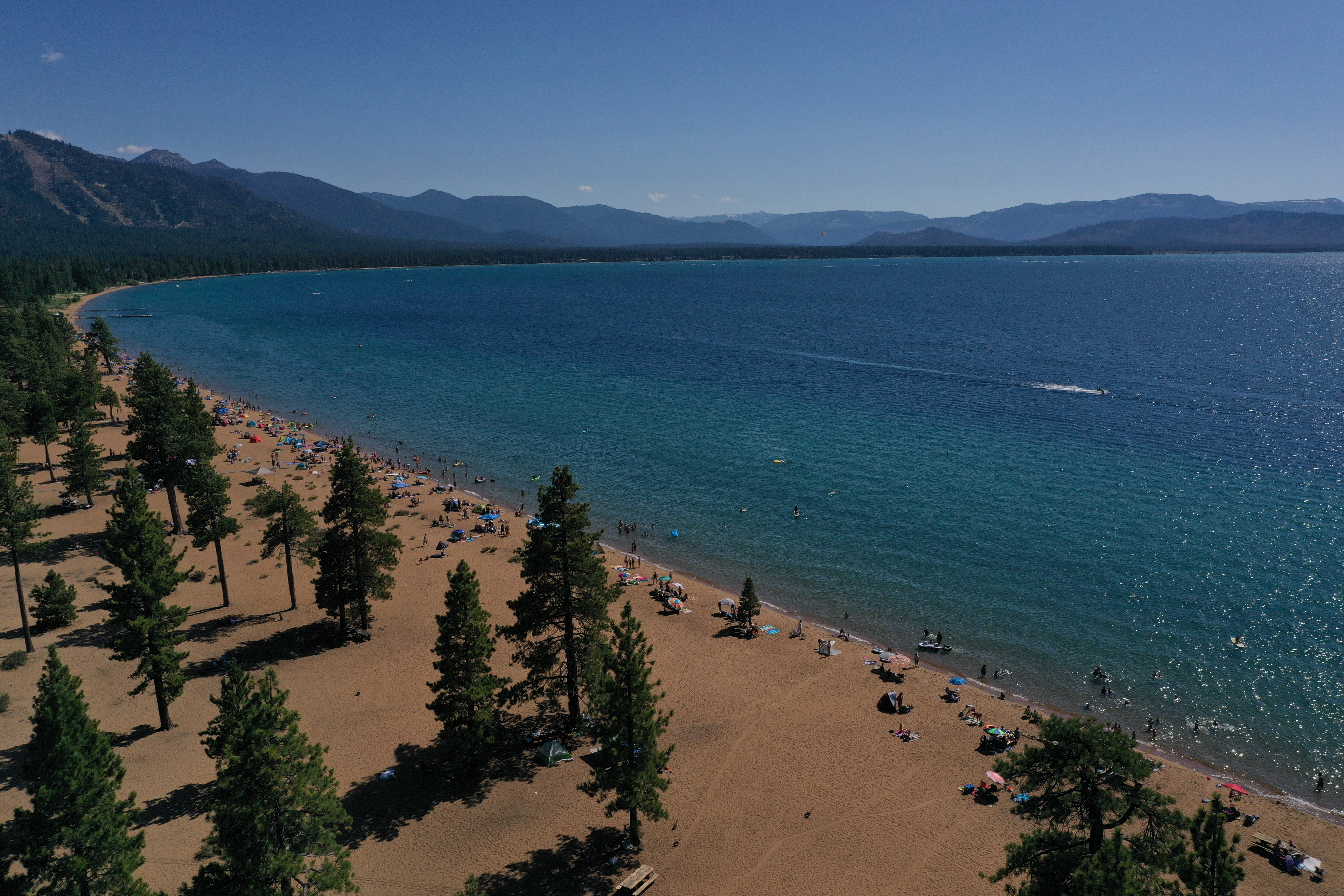 Nevada Beach on Lake Tahoe Nevada’s side